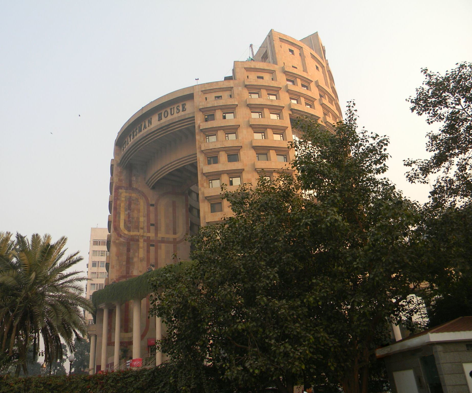 Stateman House, New Delhi